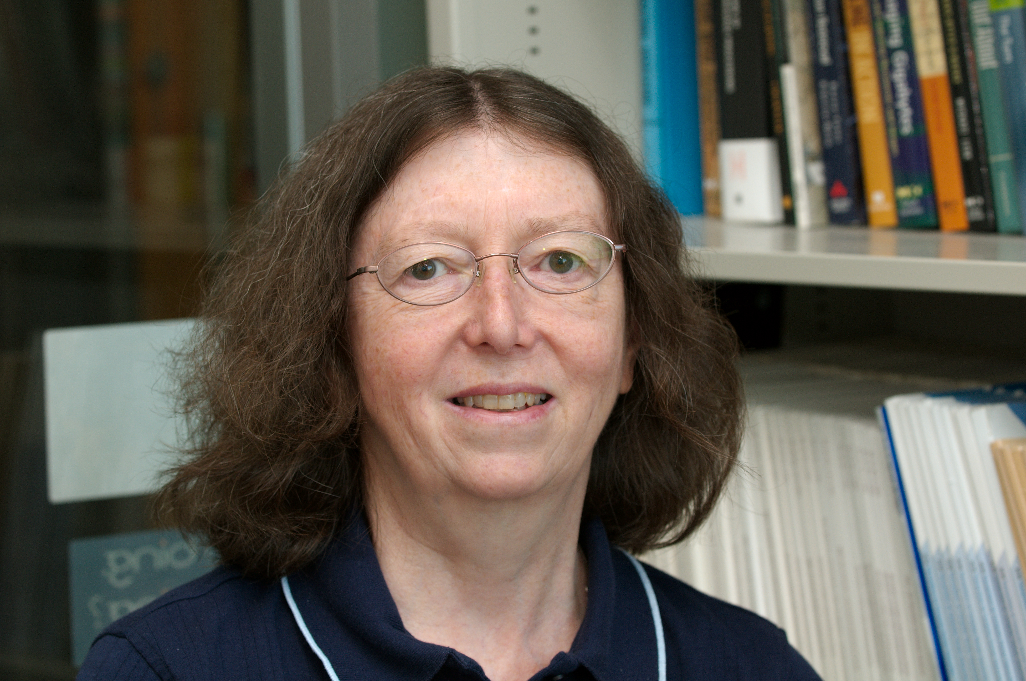 Computer science researcher Susan Dumais in her office at Microsoft Research.